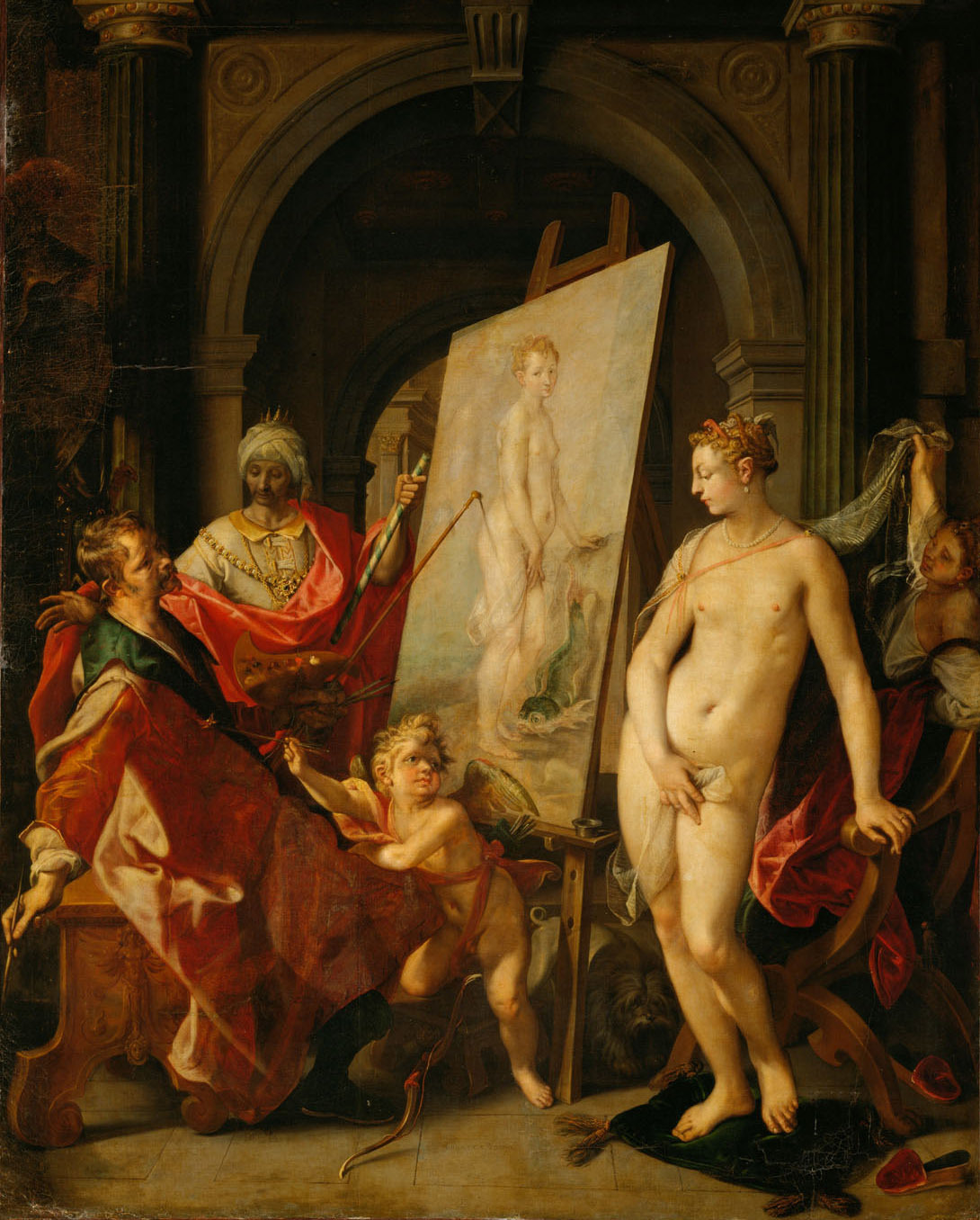 Apelles paints Campaspe, painted by Joos van Winghe for the emperor Rudolph II